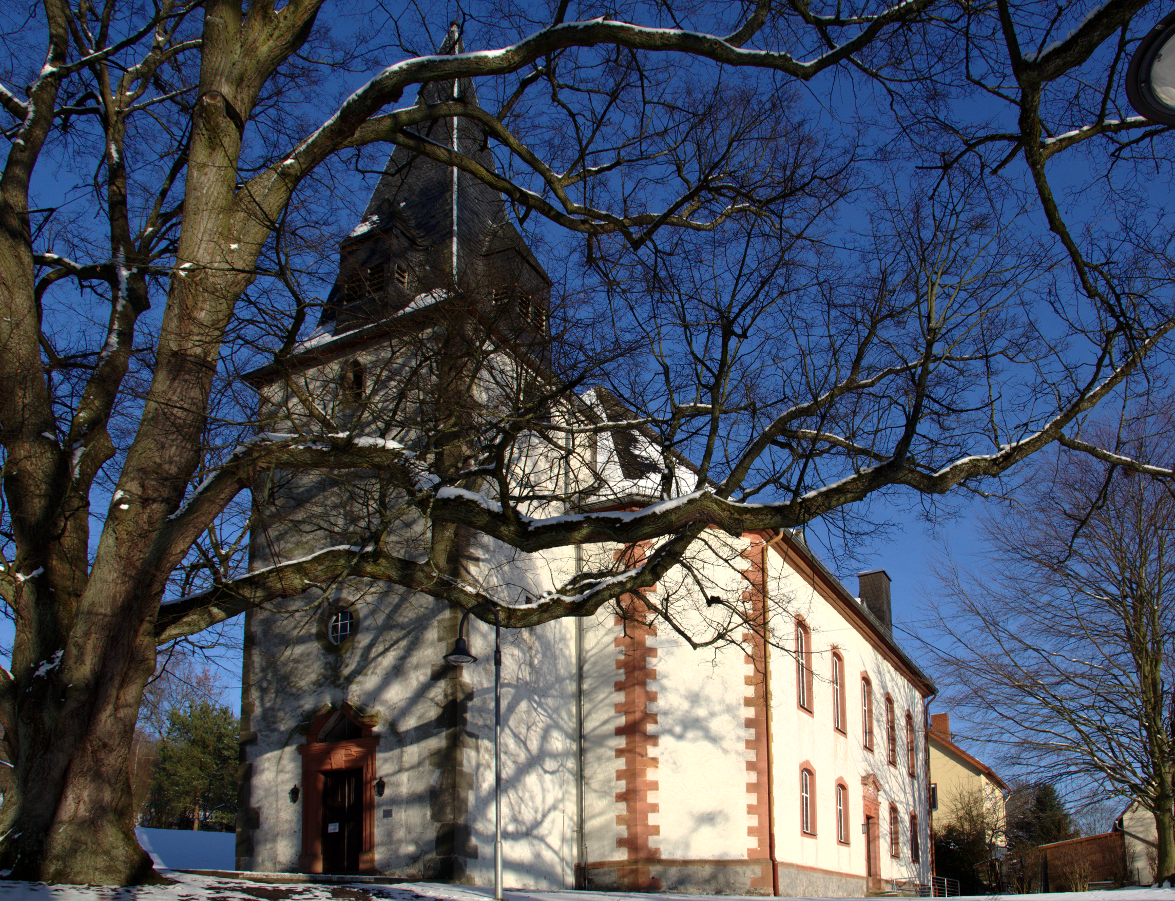 Protestant church "St. Gangolf" in Bobenhausen II, Ulrichstein, Hesse, Germany